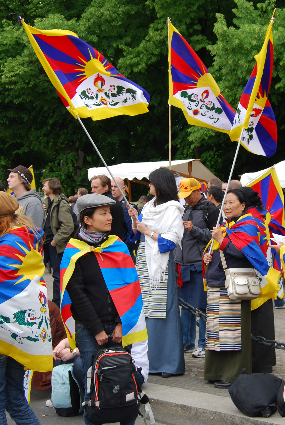 The Dalai Lama addressed over 20,000 pro-Tibet freedom supporters while standing before Berlin's Brandenburg Gate. This is just a sampling of the thousands of people present who had wrapped themselves in the flag.